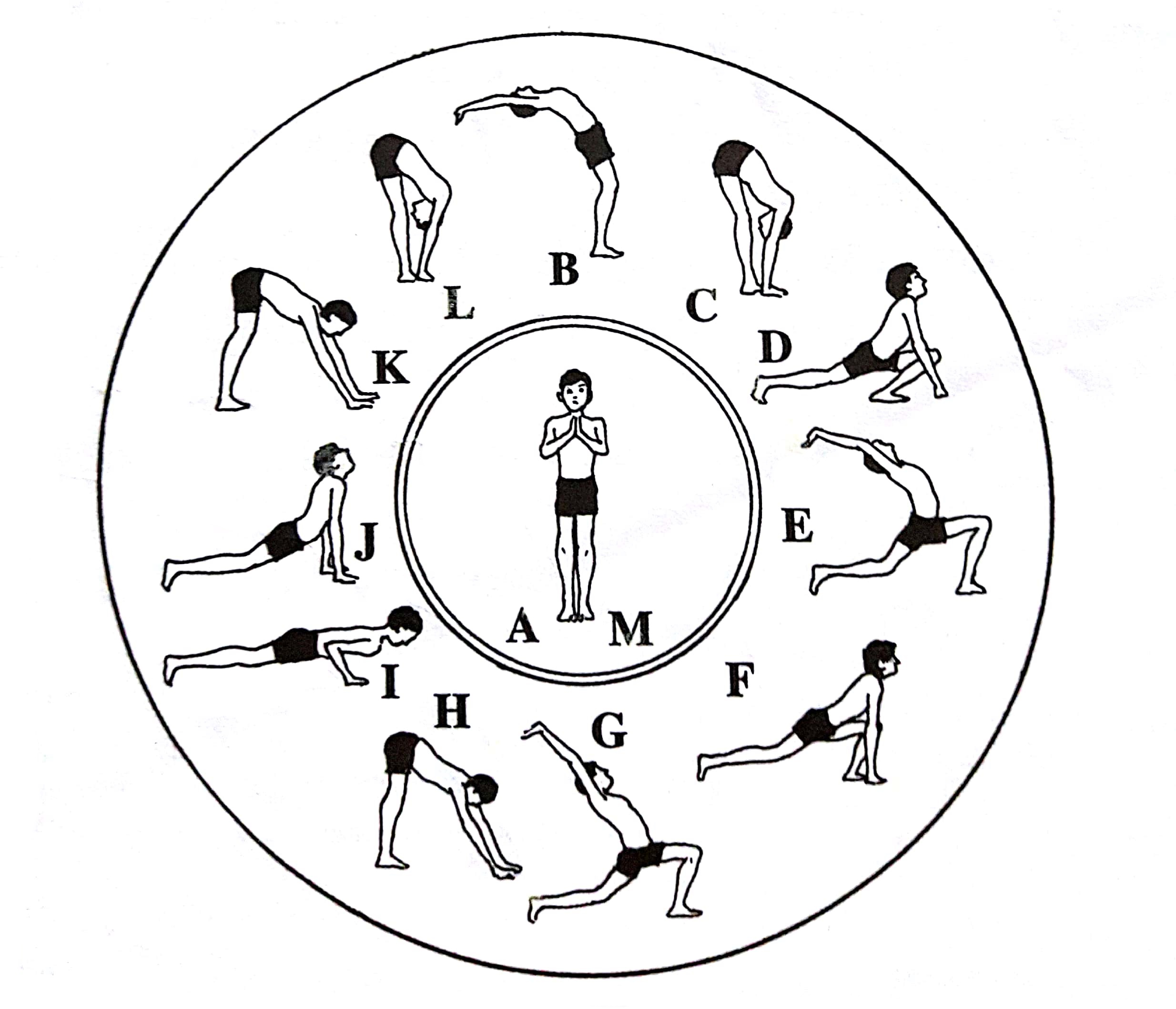 Surya Namaskār